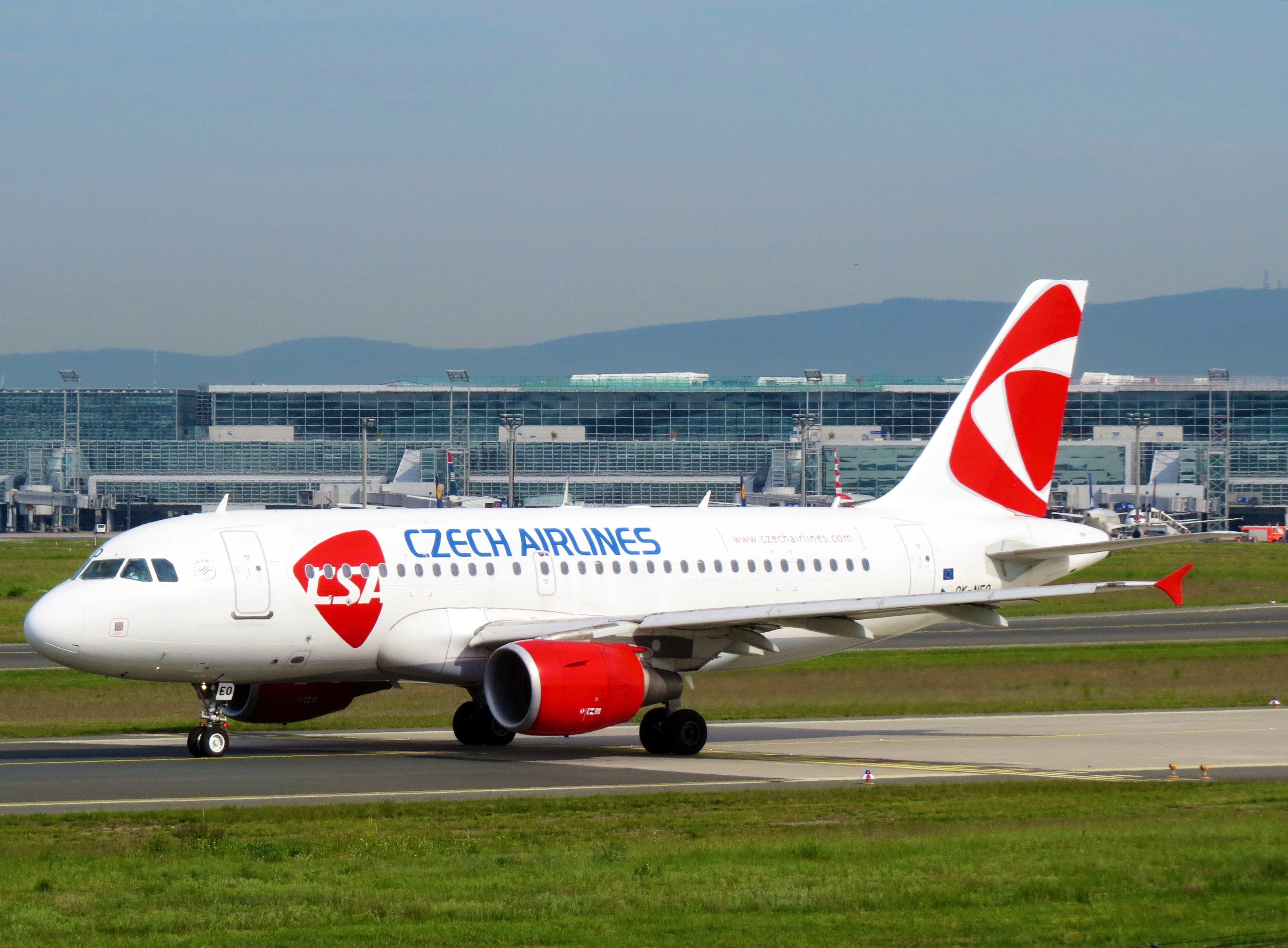 Czech Airlines (CSA) Airbus A319-112